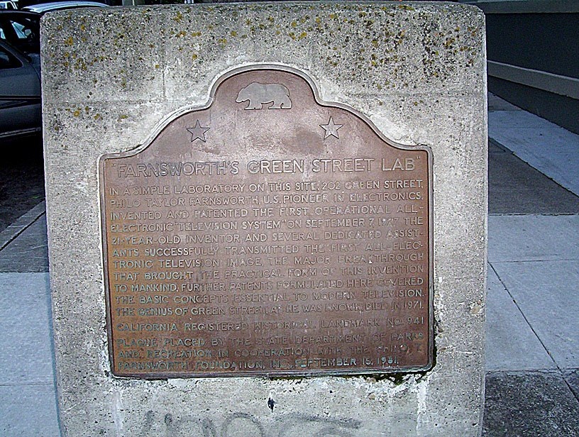 Plaque on Green Street in San Francisco dedicated to Philo Farnsworth.